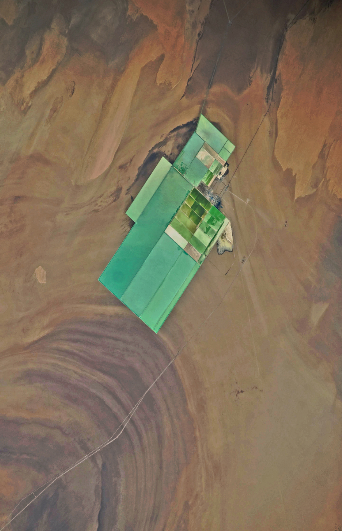 The world's largest potash fertilizer production base in the size 10 to 21 km is built in the former Lake Lop Nur, Xinjiang, China. The first phase of the project which has an annual capacity of 1.2 million tons was put into operation on Dec.18, 2008. The second phase with an annual capacity of 1.7 million tons has been launched 2009 and will be operational in 2014. The 3 million program will make Lop Nor the largest potash fertilizer production base in the world. The Project of Development and Utilization of Sylvite Resources in Lop Nur region employs the technique of producing potassium sulphate through magnesium sulfate subtype brine, which filled a technological gas of this kind and made China among the fewer countries that could produce potassium sulphate from brine directly taken from salt lake. The satellite picture is taken 2009-10-12. For more informatiom see here, here and here.